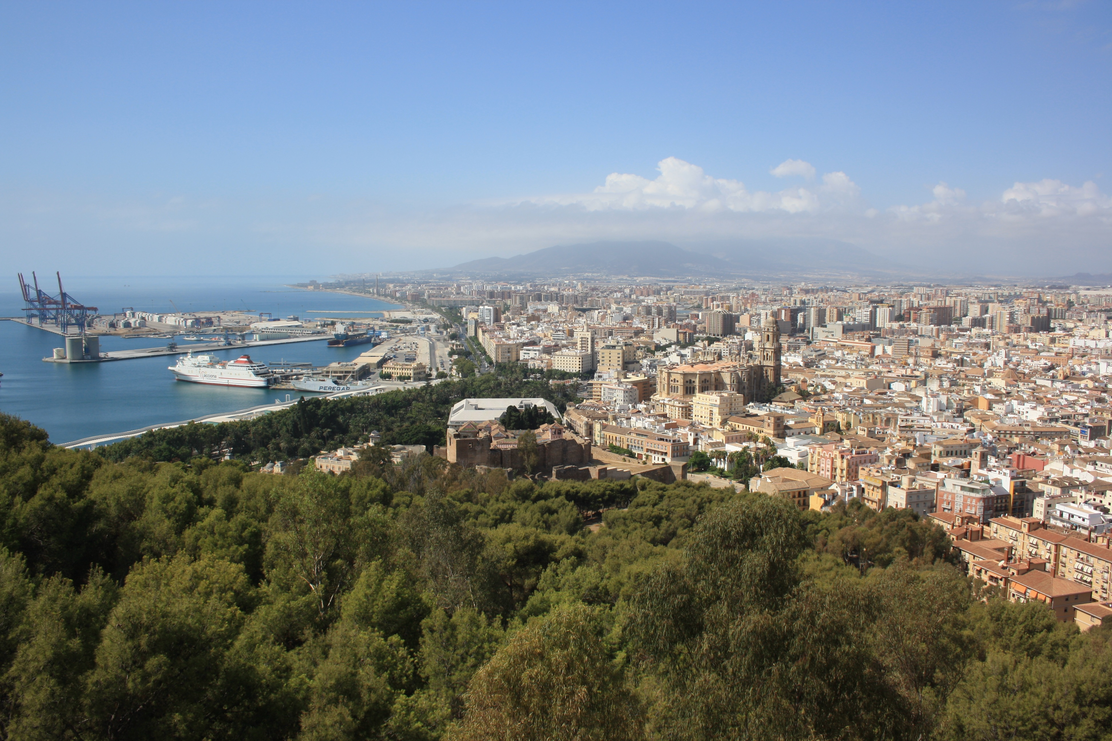 Málaga from Gibralfaro Castle, Spain.